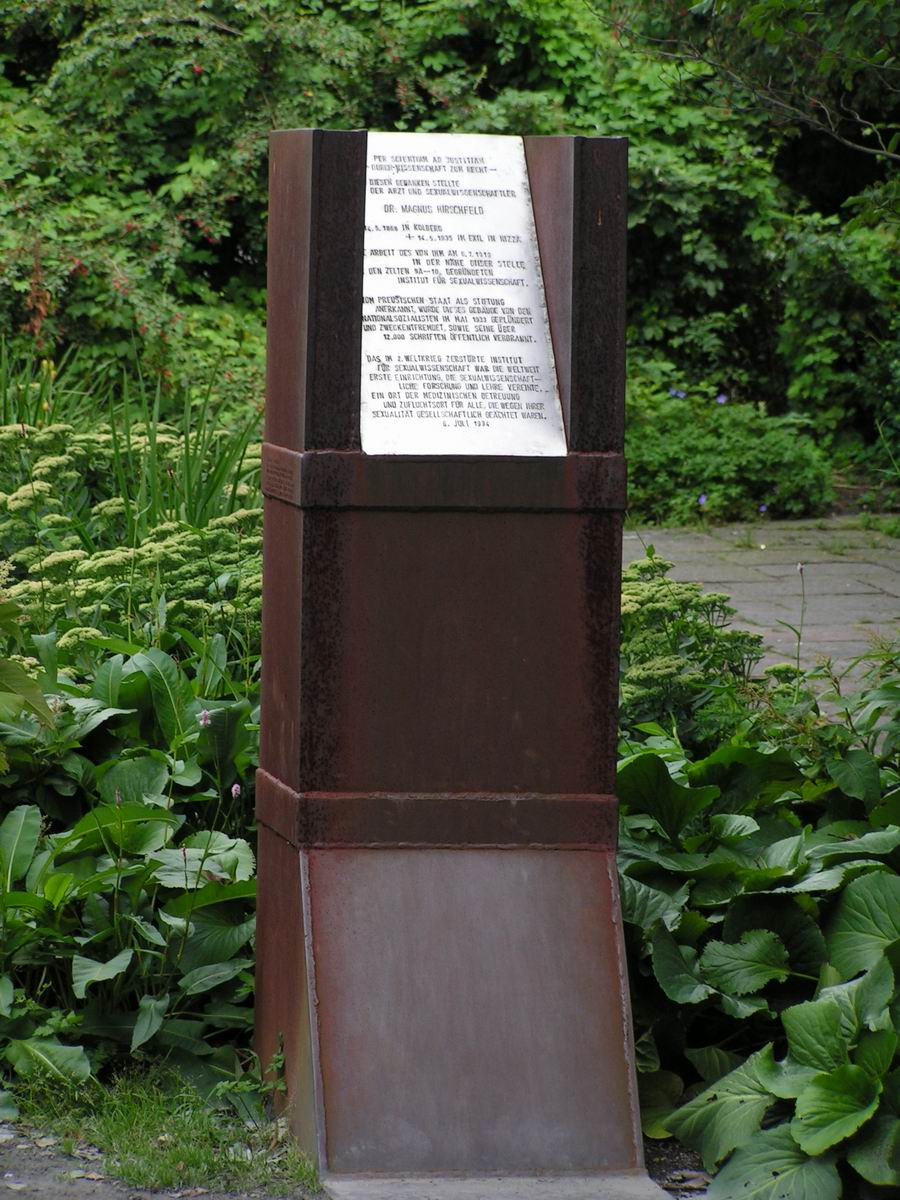 Memorial to Dr. Magnus Hirschfeld and his Institute for Sex Research, Berlin Tiergarten, 12 August 2005